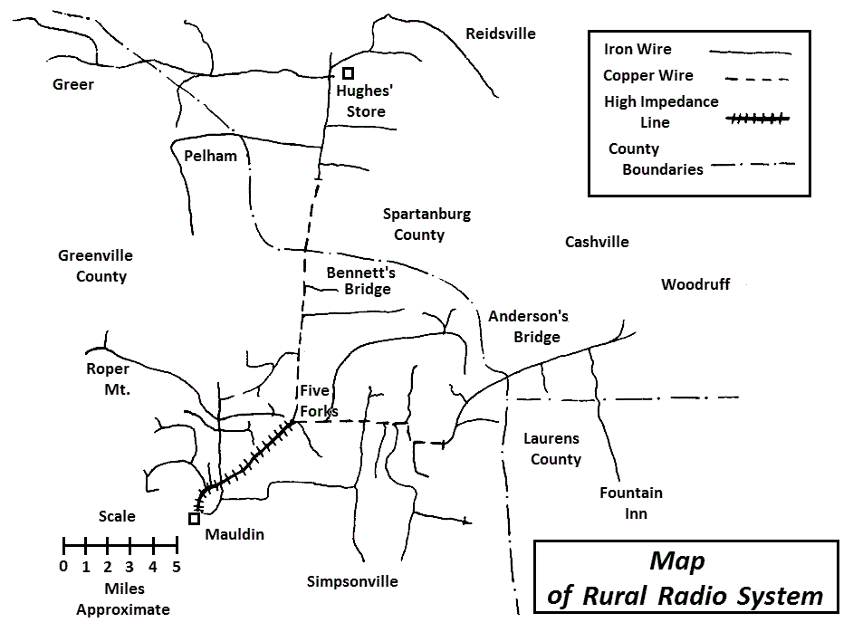 Map of the Mauldin, South Carolina "grapevine radio" system in 1936. Based on the map that appears on page 72 of the July/August 1980 (Vol. 26 No. 1) issue of RCA Engineer, in the article "Bringing Radio to the Rural Home" by Gordon F. Rogers.